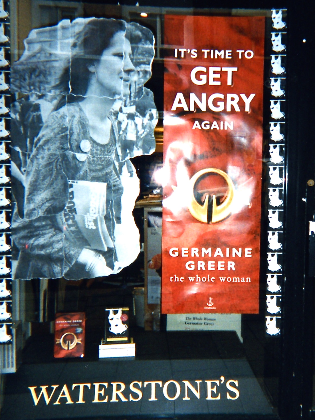 Display in a Waterstone's book store for the launch of Germaine Greer's The Whole Woman (1999).